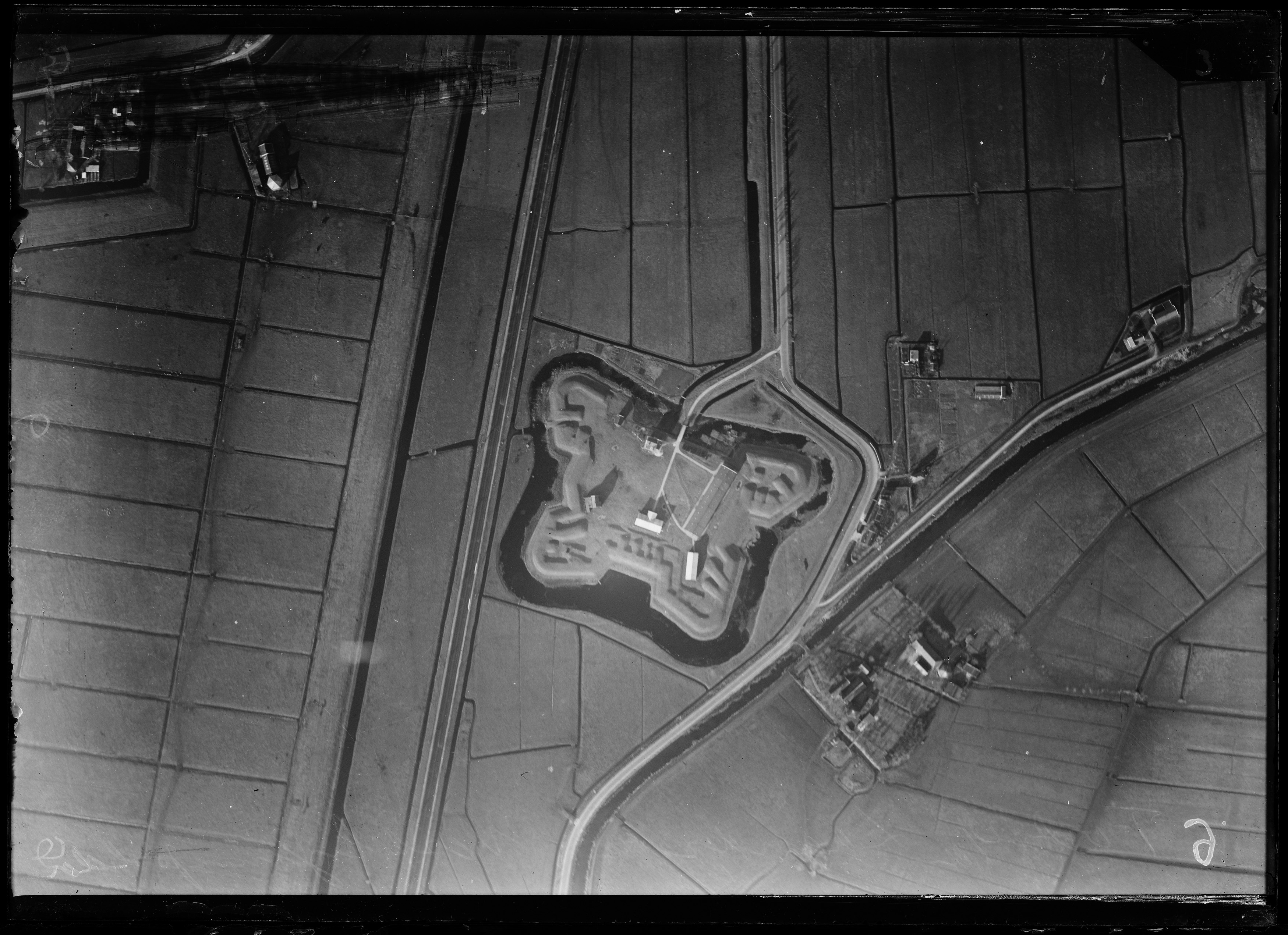 Aerial photograph of Fort Bijlmer, The Netherlands